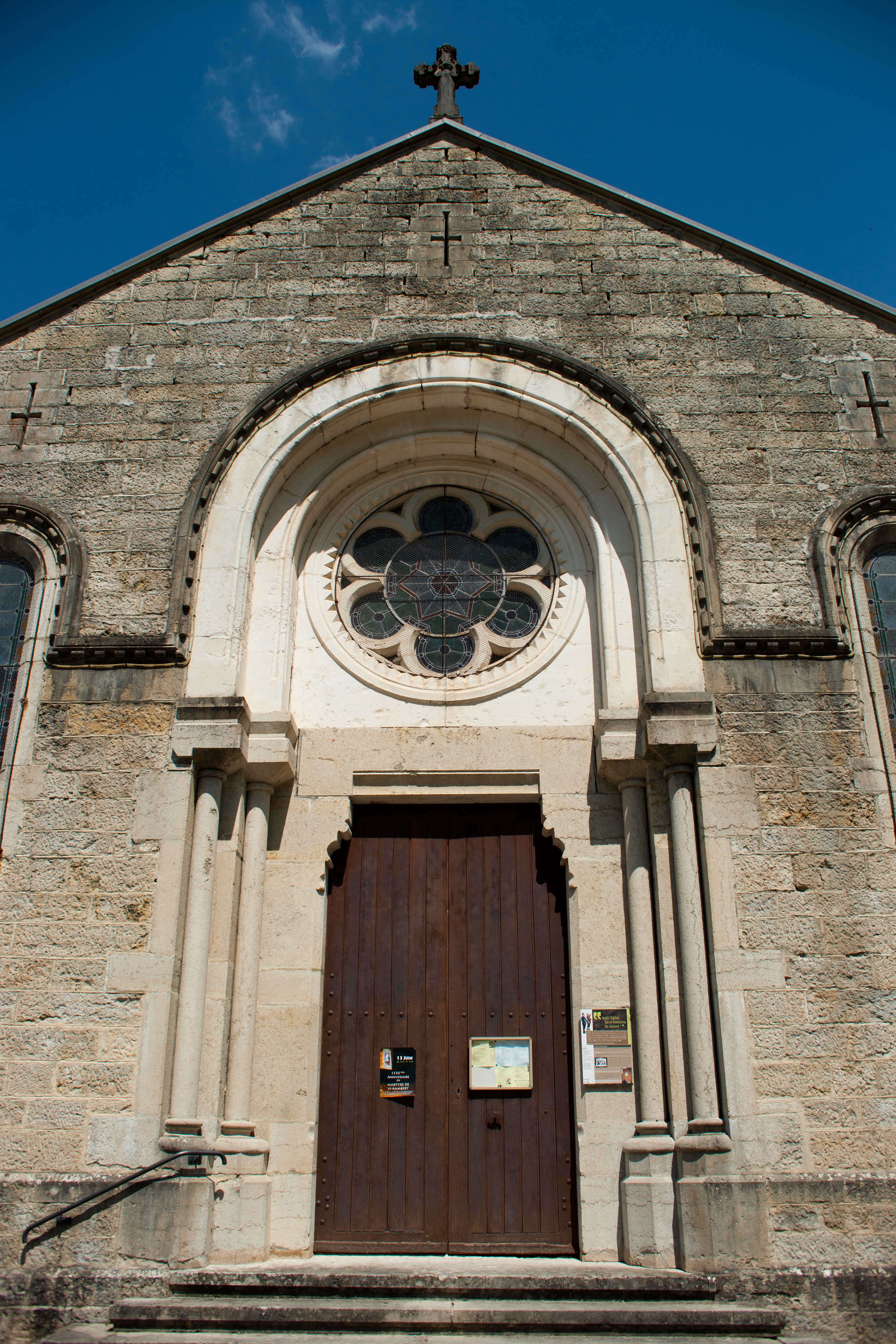 Church in Conand, France.